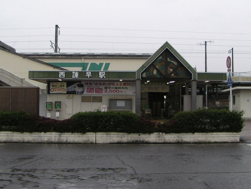 This is a photograph of 西諫早駅 and was taken by User:Kouchiumi on March 27, 2005.